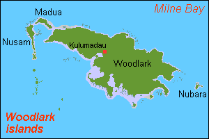 Map (rough) Woodlark islands, Papua New Guinea, own work composed from various mapreferences